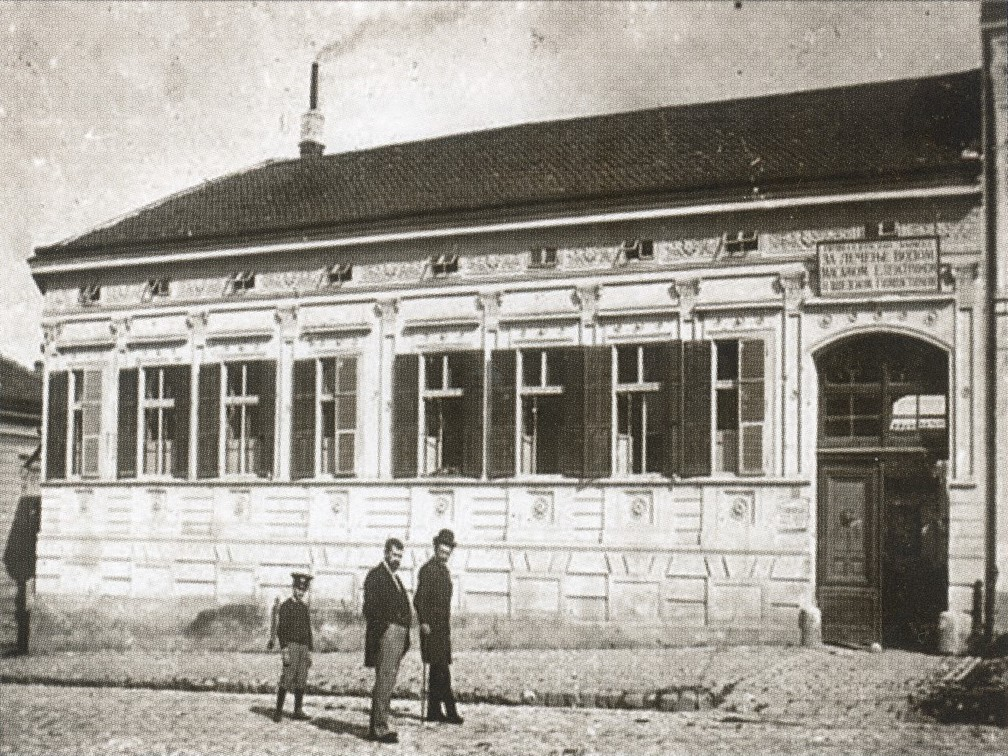 The building of the First Serbian Institute for healing with water treatment, massage, electricity and Swedish gymnastics.